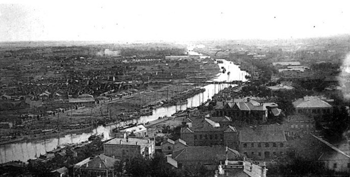 Image from La Chine à terre et en ballon.